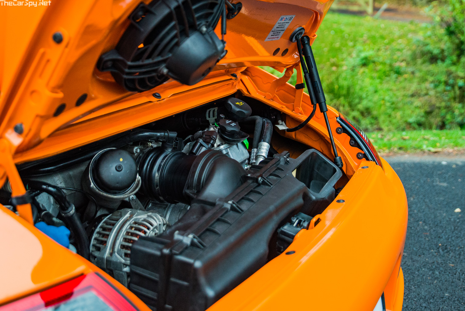 An orange 2006 Porsche 911 (997) GT3 RS 3.6 in a park, with the rear hood open showing the engine.